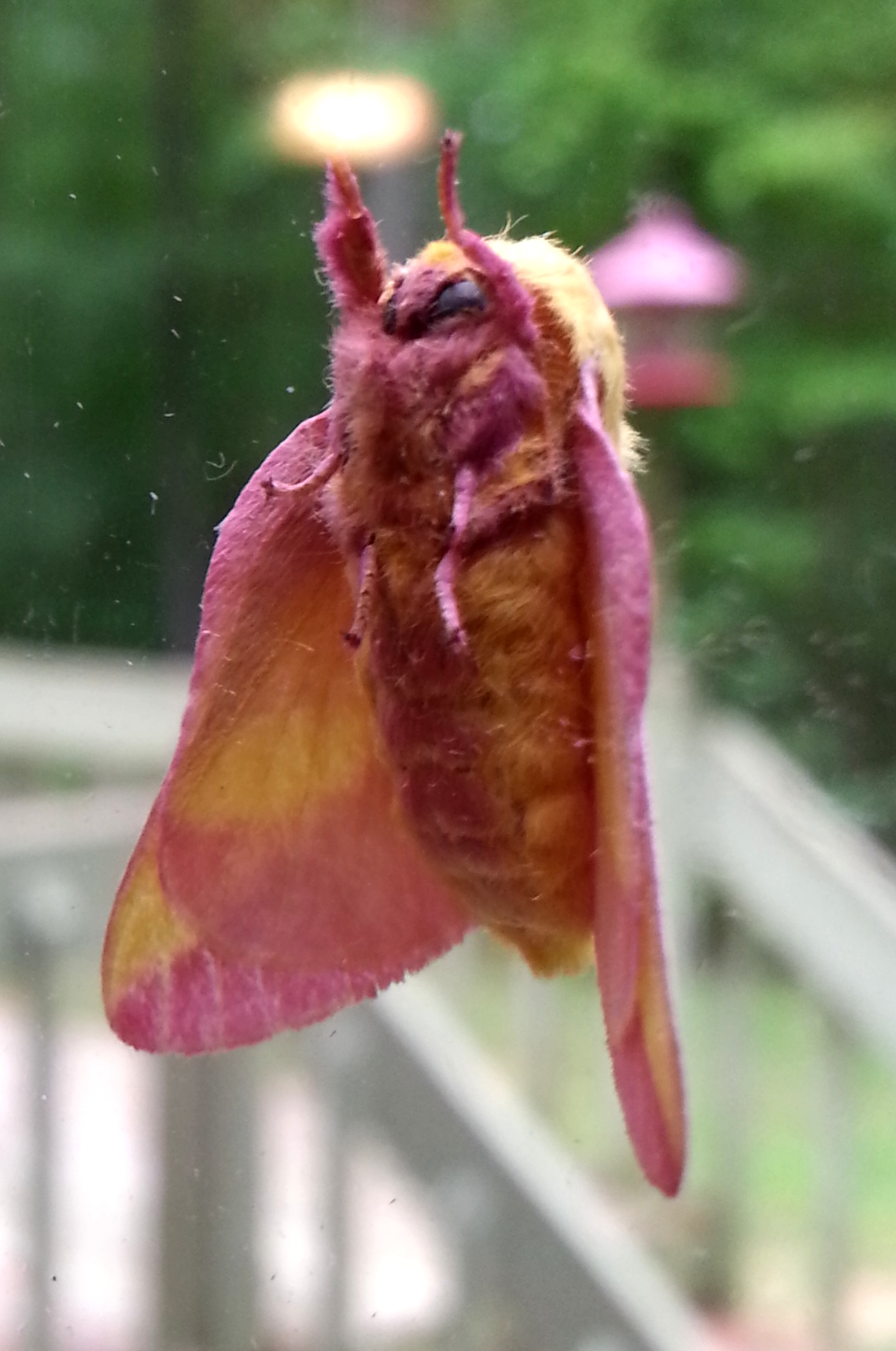 A rosy maple moth (Dryocampa rubicunda). (Apologies for the somewhat woefully dirty window)